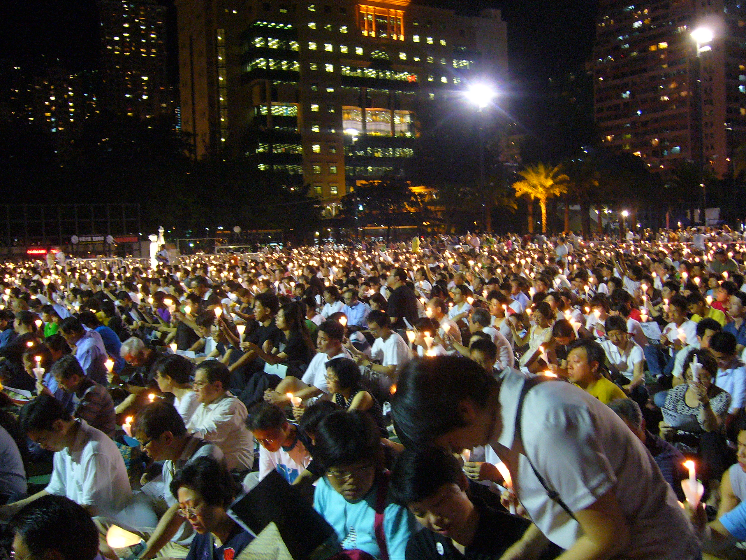 Candlelight Vigil in Hong Kong for the 18th Anniversary of the June 4 Massacre